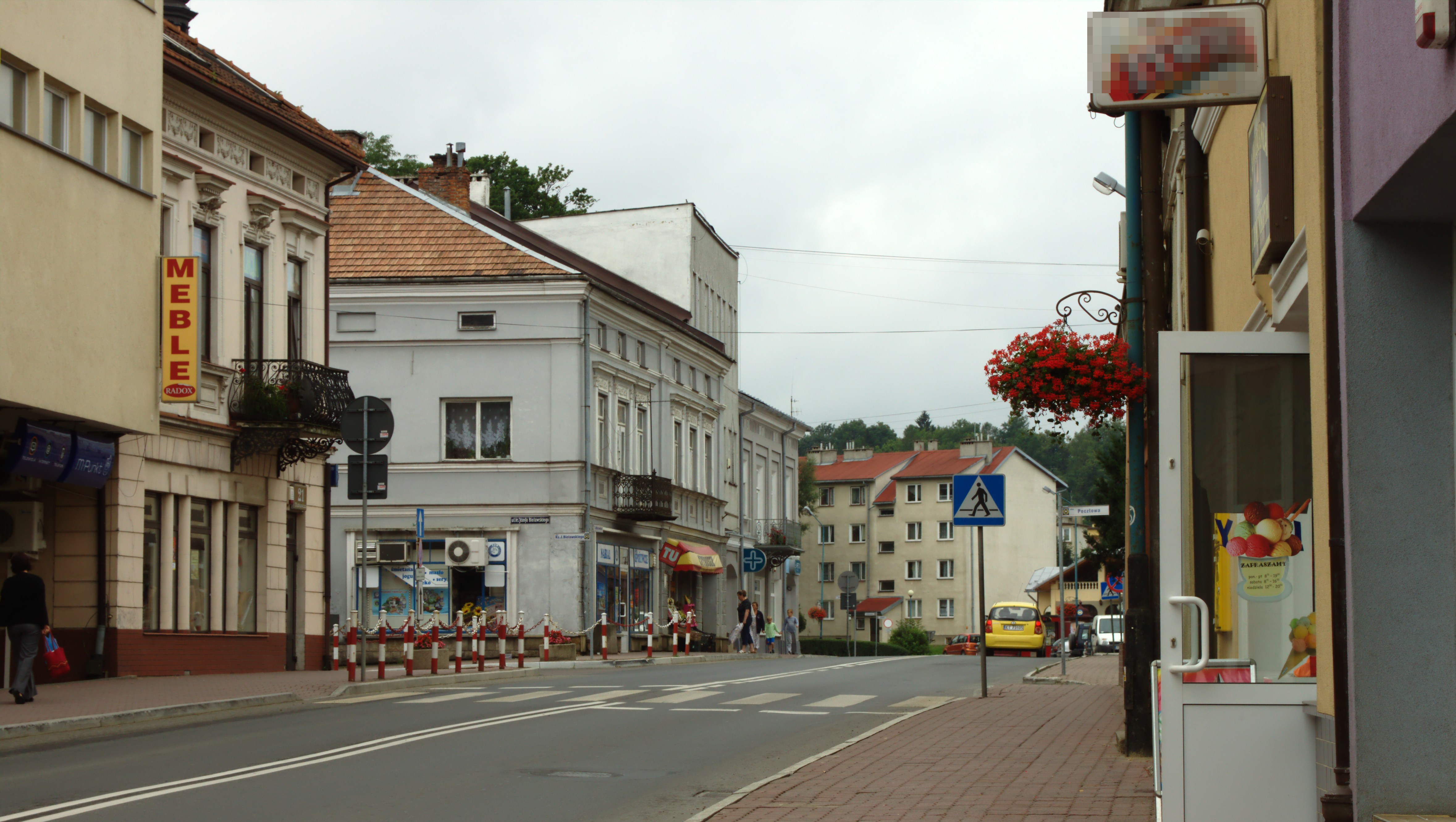 Main street in Brzozów, heading south. Podkarpackie voivodeship, PL This photo of Subcarpathian Voivodeship was taken during Wikiekspedycja 2011 set up by Wikimedia Polska Association.You can see all photographs in category Wikiekspedycja 2011. The making of this document was supported by Wikimedia Polska.